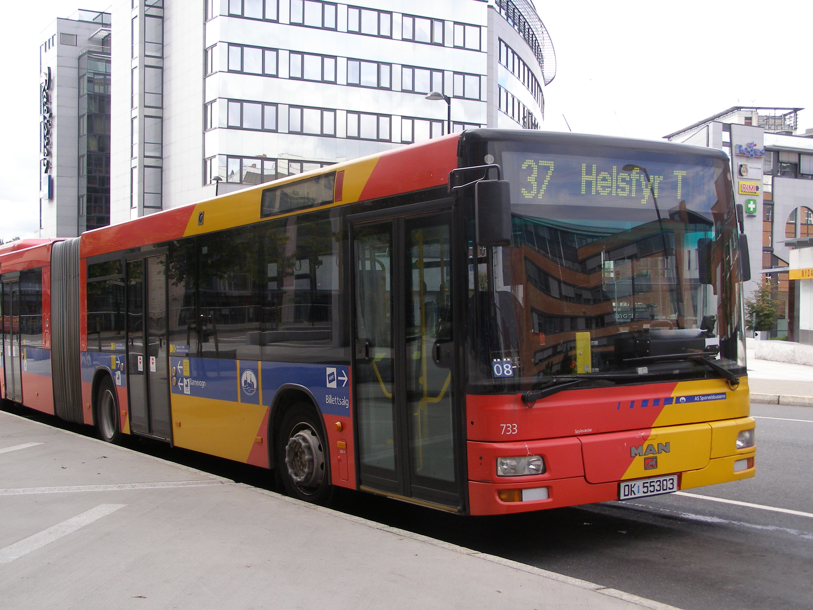 Oslo city bus